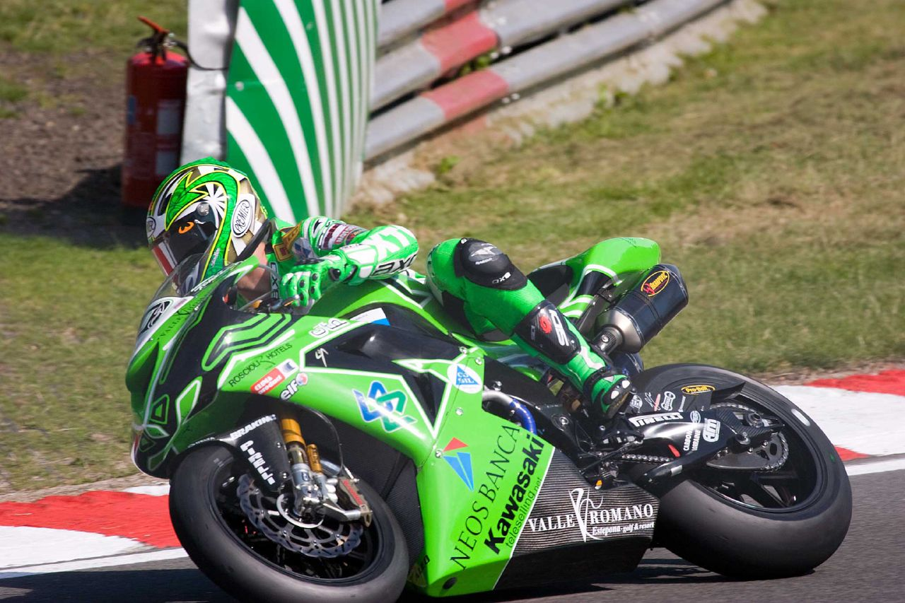 Fonsi Nieto in WSBK Round 10 Brands Hatch 2007